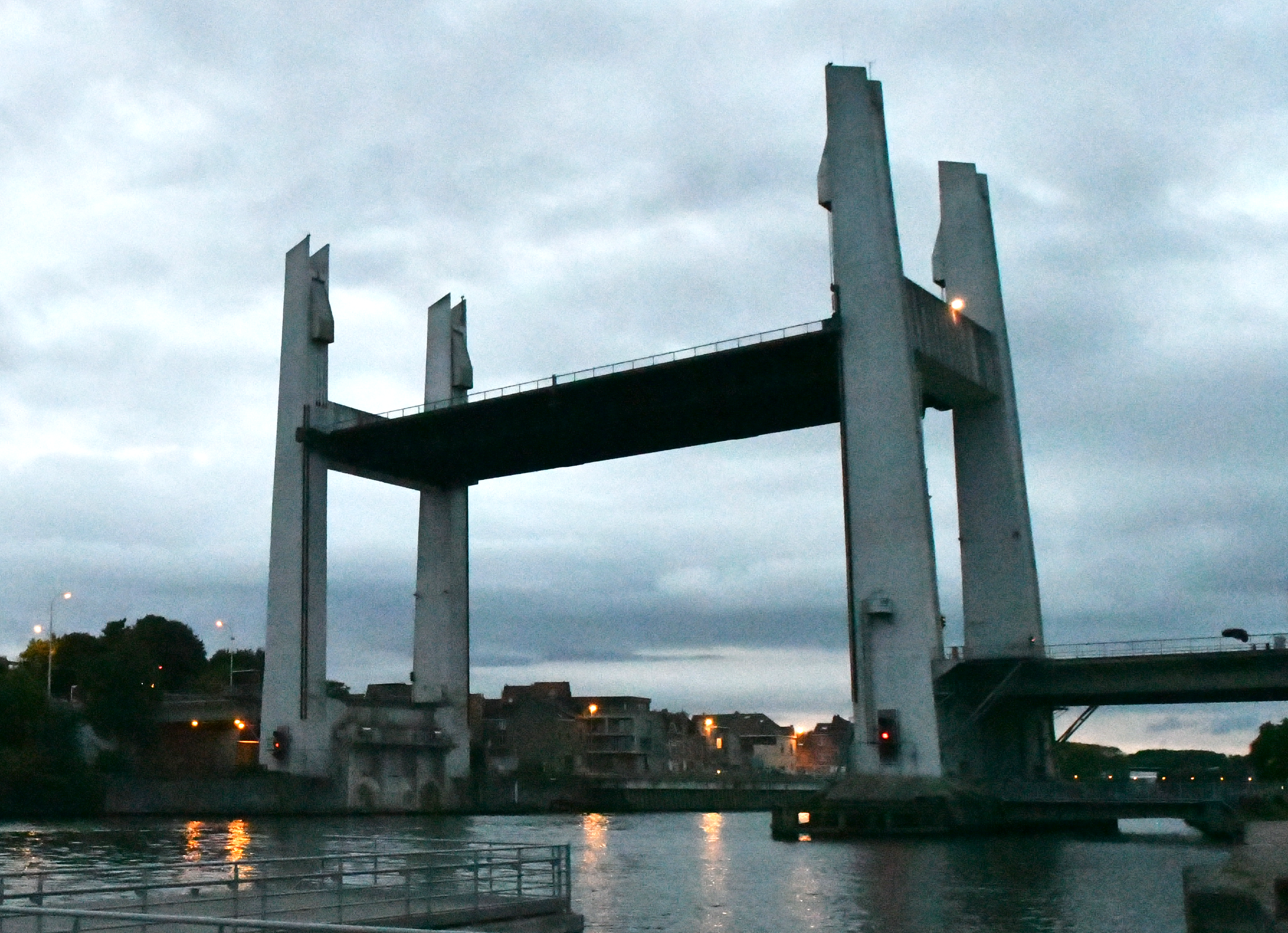 Europabrug over the Brussel-Scheldt Maritime canal